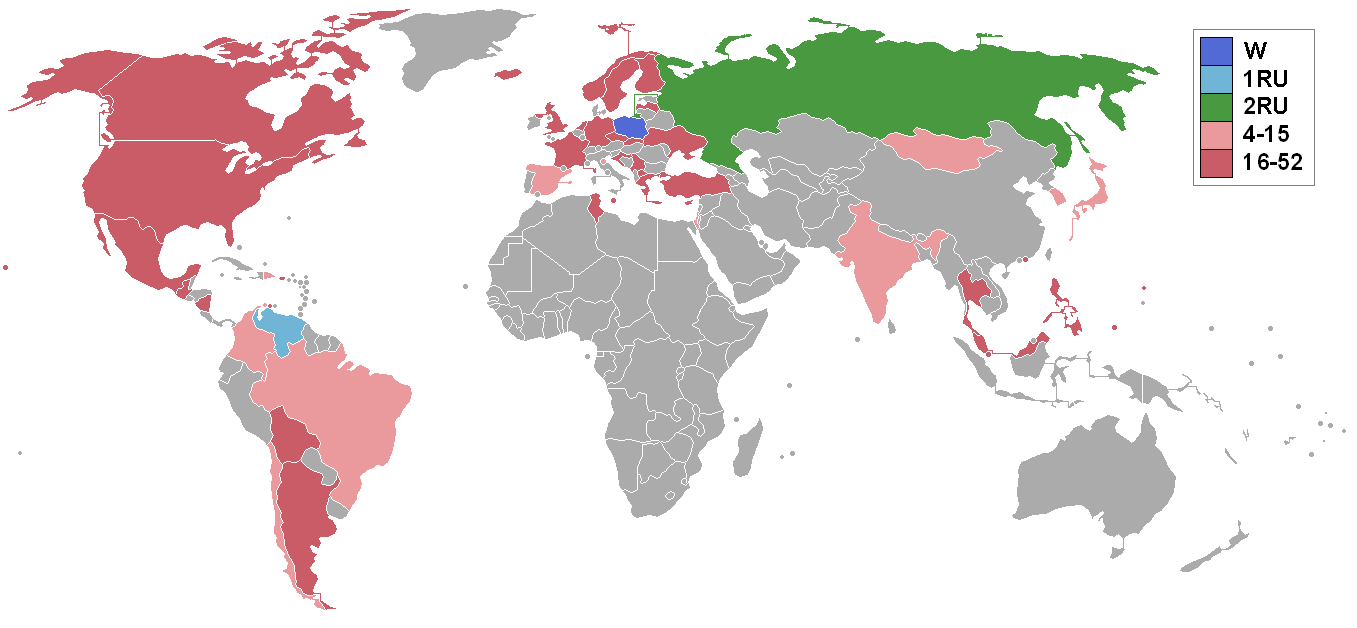 Miss International 2001 result Map